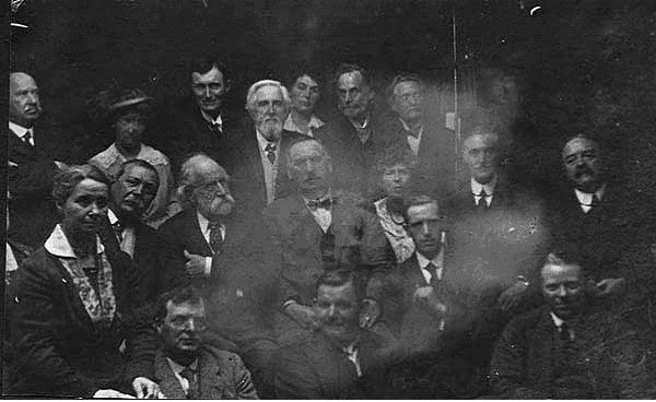 A "Spirit photograph" taken by the Crewe Circle, and the known paranormal hoaxer William Hope. Taken in 1922, this picture purportedly a spirit emerging in front of a group at the annual meeting of the "Society for the Study of Supernormal Pictures". Picture in the center is Sir Arthur Conan Doyle, his wife is to the left.